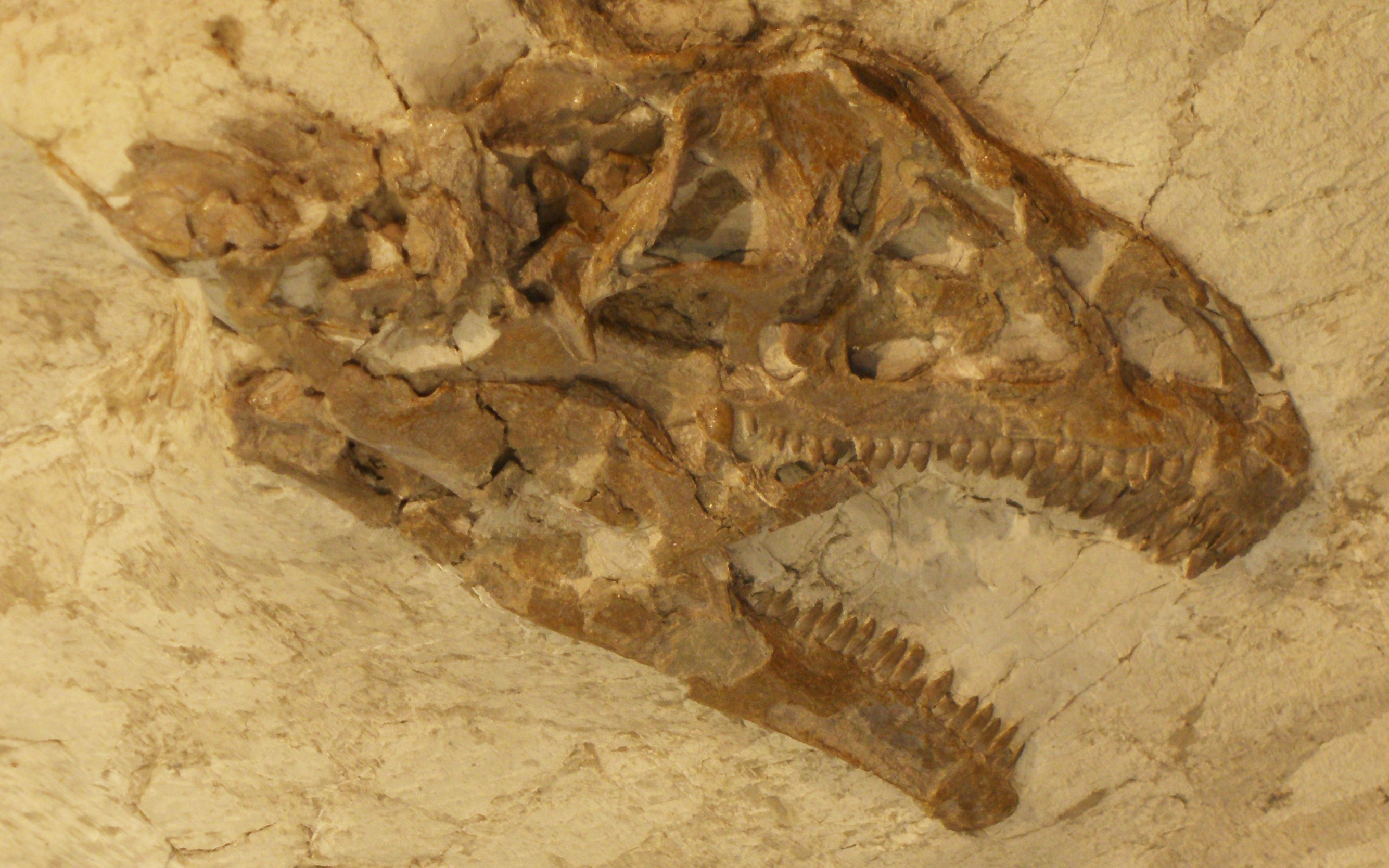 Fossil of Plateosaurus engelhardti, a dinosaur